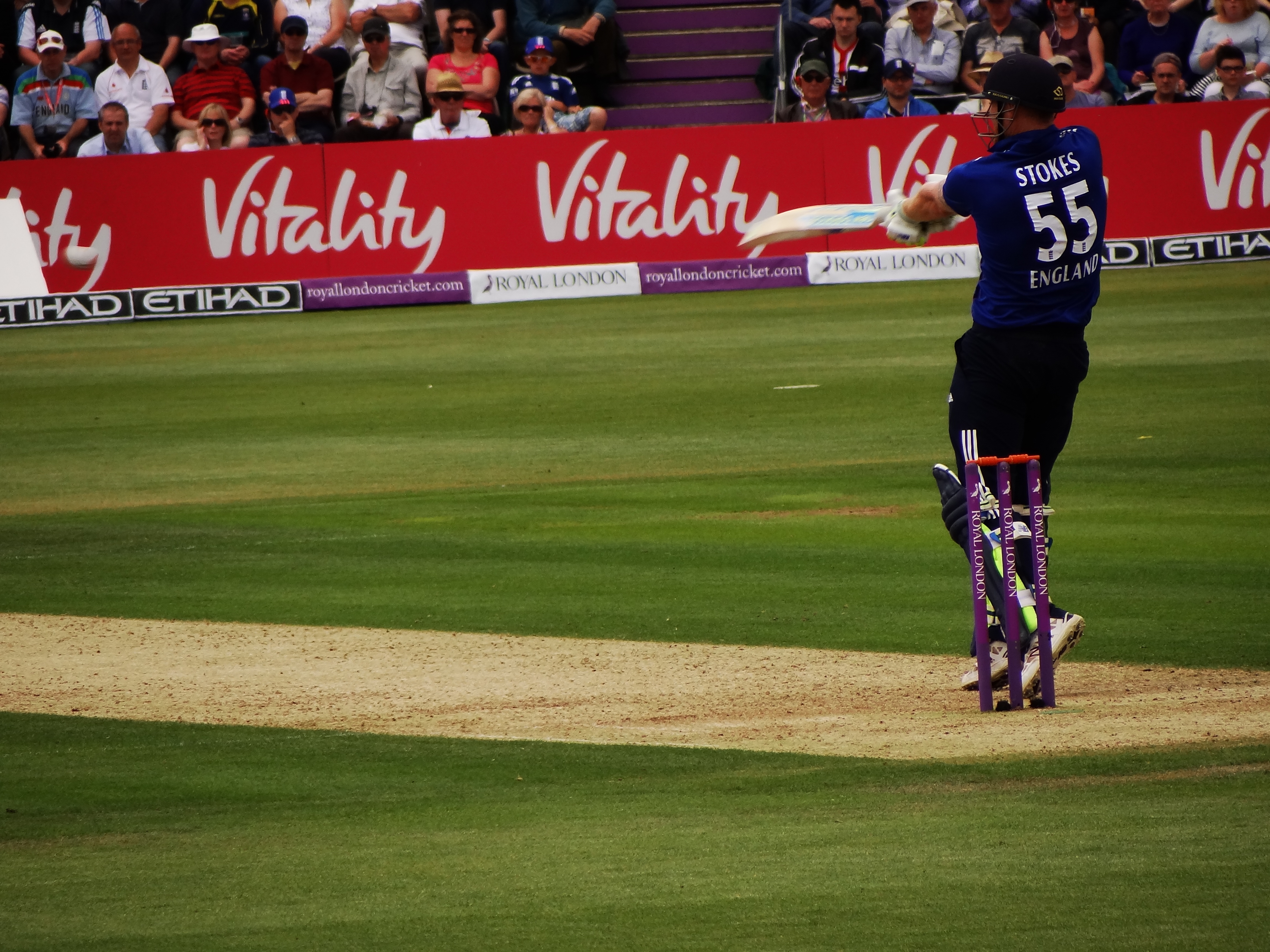 Third ODI between England and New Zealand in 2015